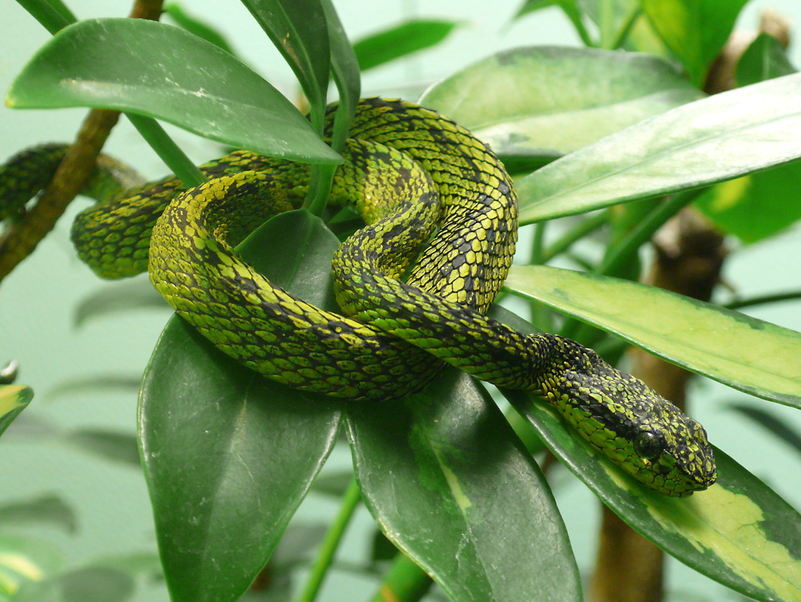 Black-speckled palm-pitviper (Bothriechis nigroviridis)